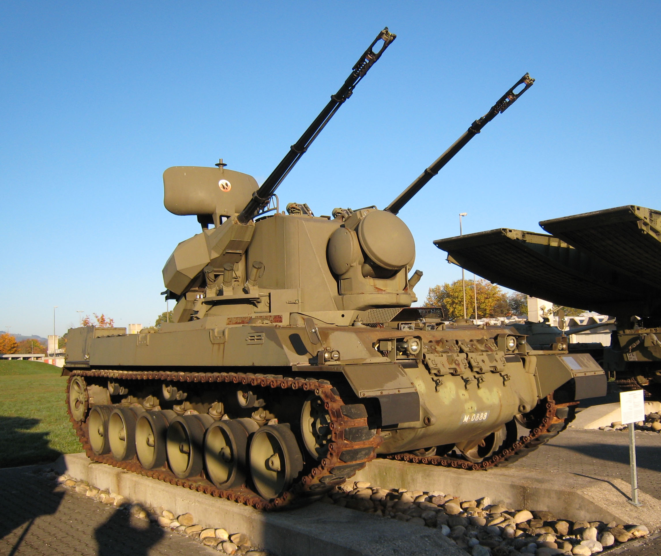 Swiss Army. Anti-aircraft tank 68 (a prototype, the model did not see service). Tank Museum Thun.